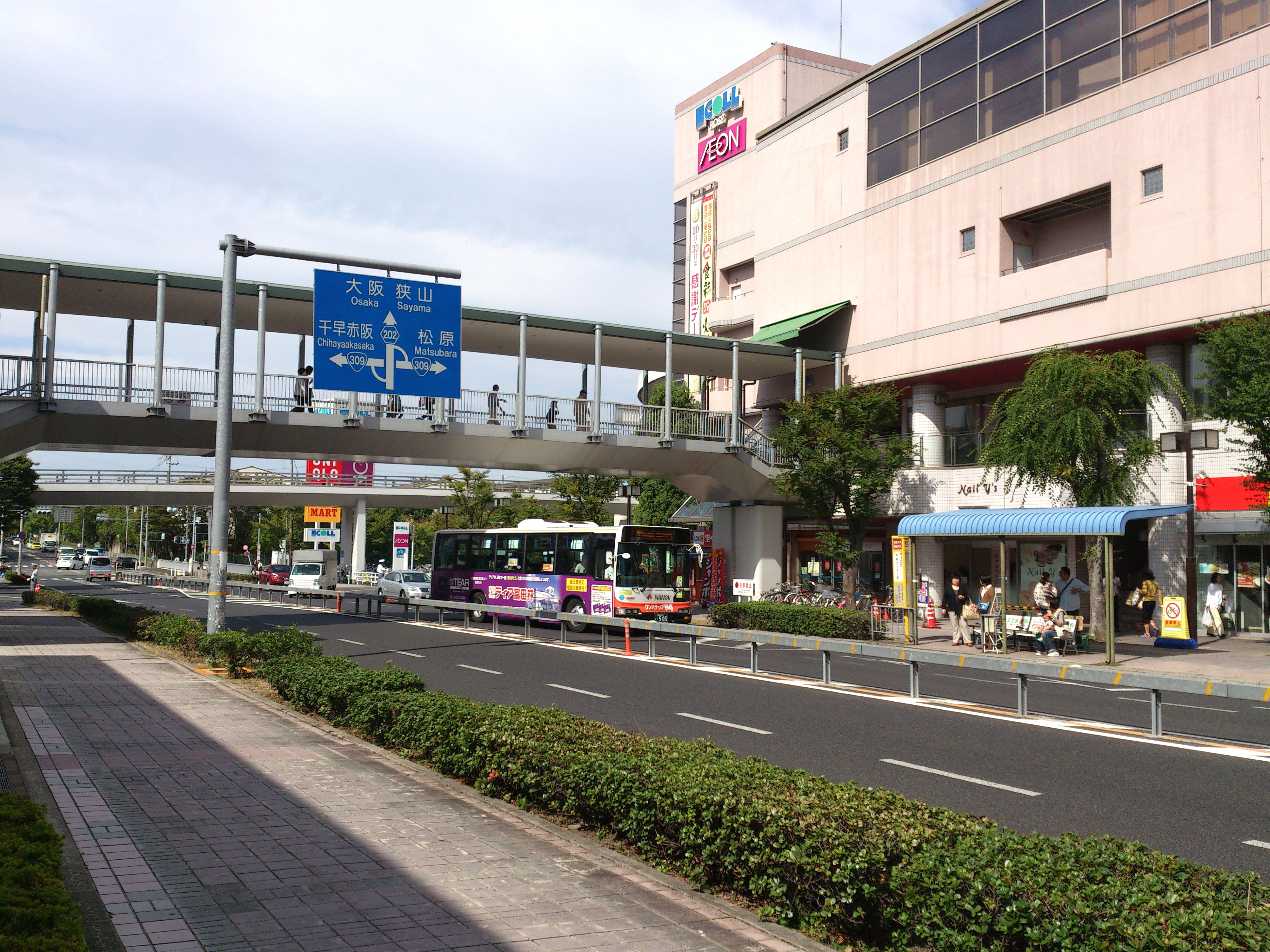 Ecoll Rose Shopping Center in Tondabayashi, Osaka, Japan.